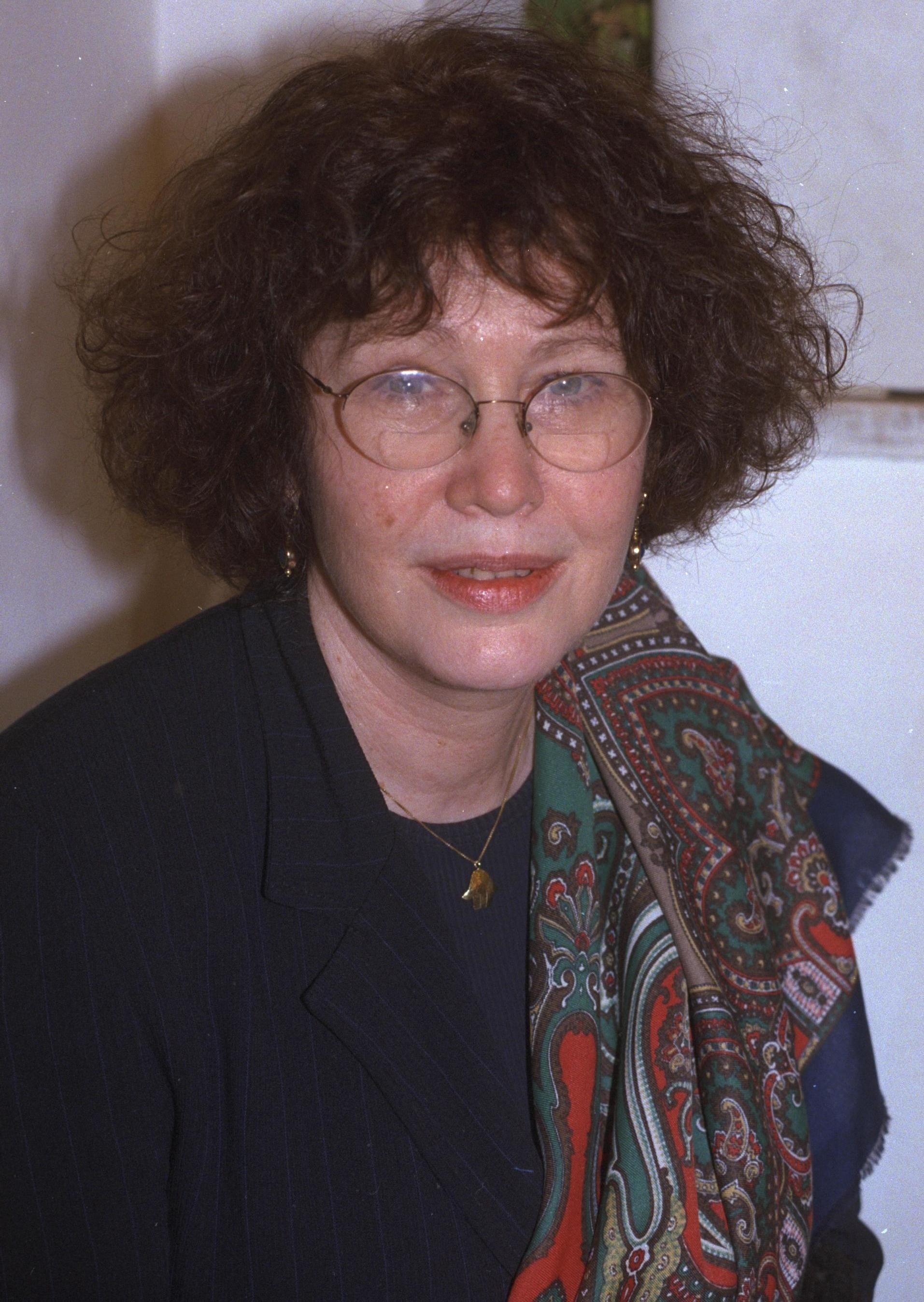 Portrait of poet Dahlia Ravikovitch.